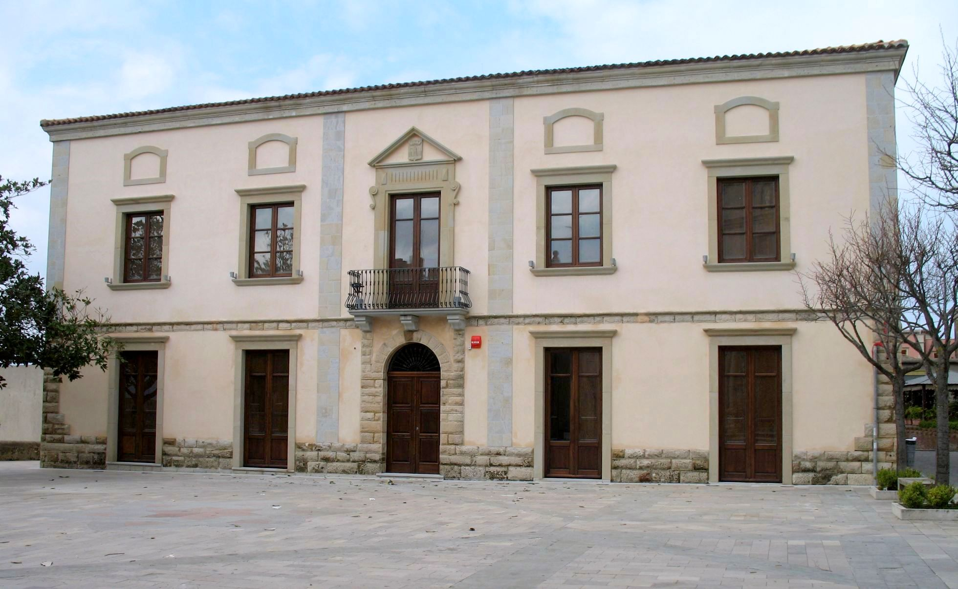 Municipio (Piazza Margherita)